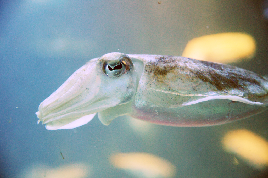 Cuttlefish